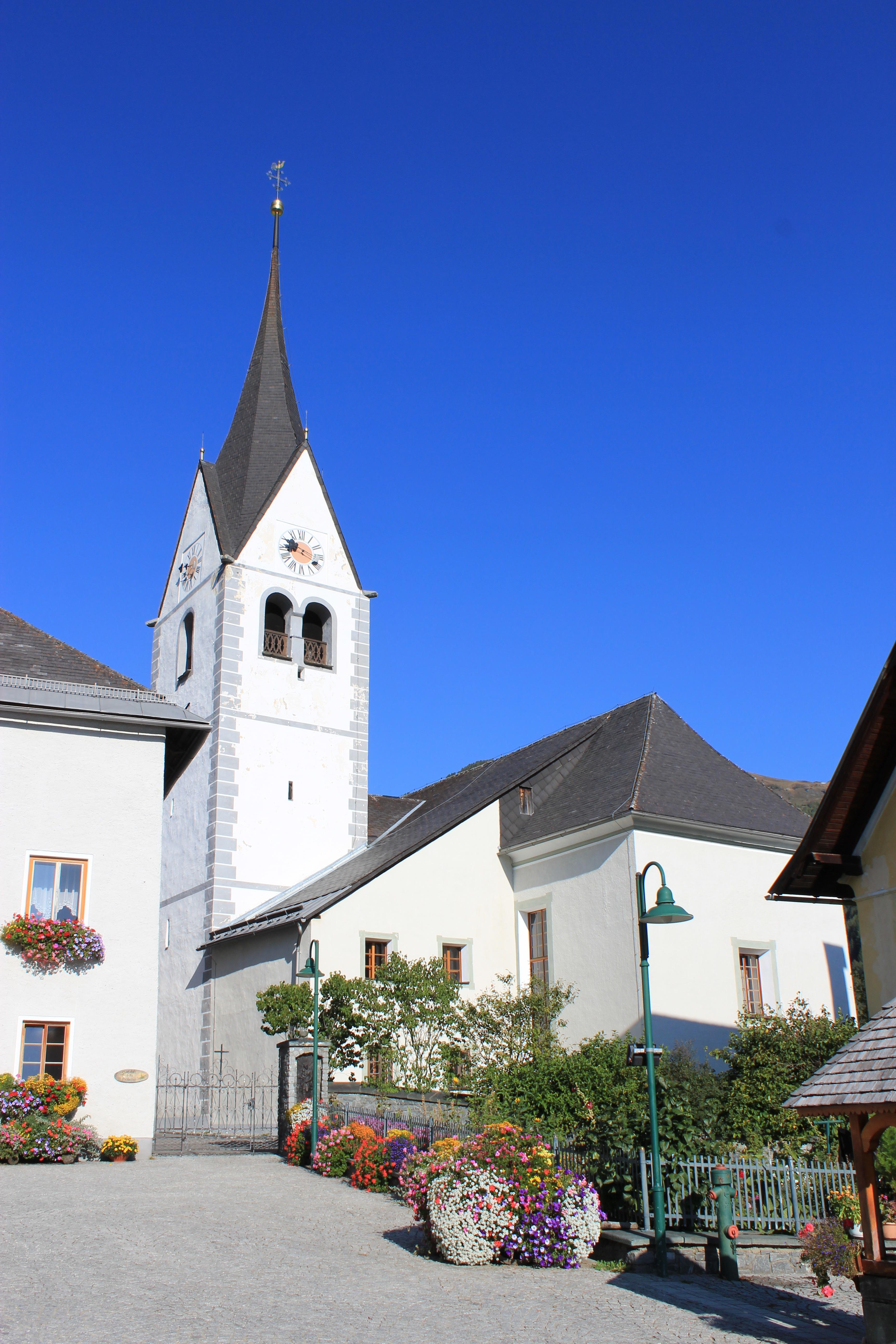 Church of Sankt Peter im Katschtal in the community of Rennweg am Katschberg